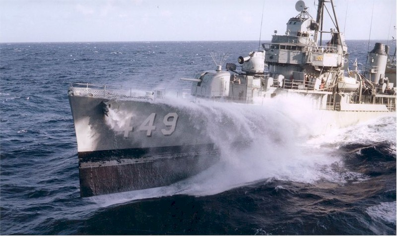 The U.S. Navy destroyer USS Nicholas (DD-449) in heavy seas, circa in 1968. The photo was taken from the aircraft carrier USS Intrepid (CVS-11).